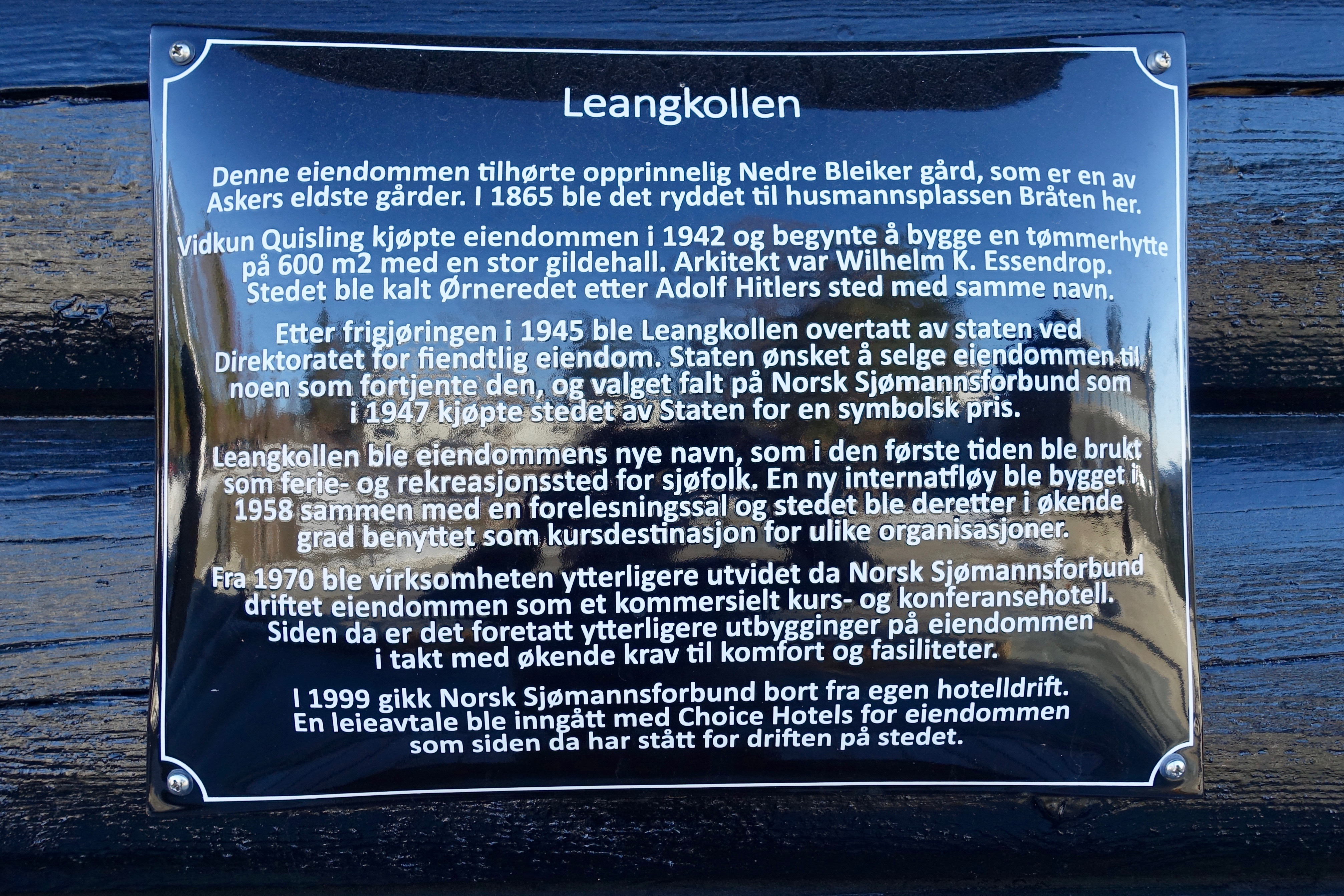 Exterior of Leangkollen Hotel in Asker, Norway. Commemorative plaque on outer log wall on the history of the hotel. The conference hotel was originally drawn by architect Wilhelm K. Essendrop in 1941 and built as a log cabin/house residence for Vidkun Quisling, leader of Norwegian fascist party Nasjonal Samling before and under World War 2. Sold/given to Norwegian Seafarers' Union ("Norsk Sjømannsforbund") in 1947. Photo taken on 2019-03-31.